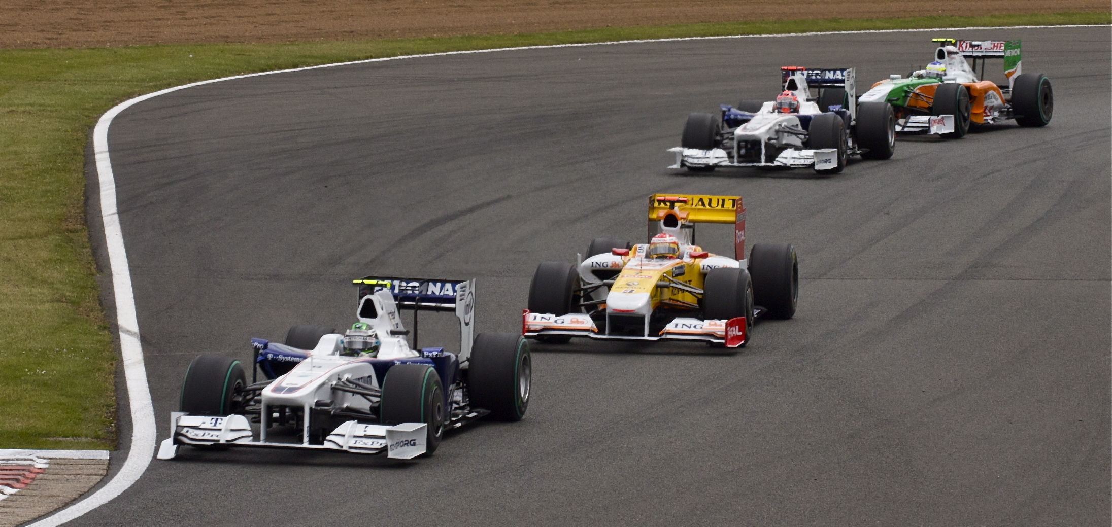 (Front to back) Nick Heidfeld, Fernando Alonso, Robert Kubica and Giancarlo Fisichella at the 2009 British Grand Prix, Silverstone, UK.